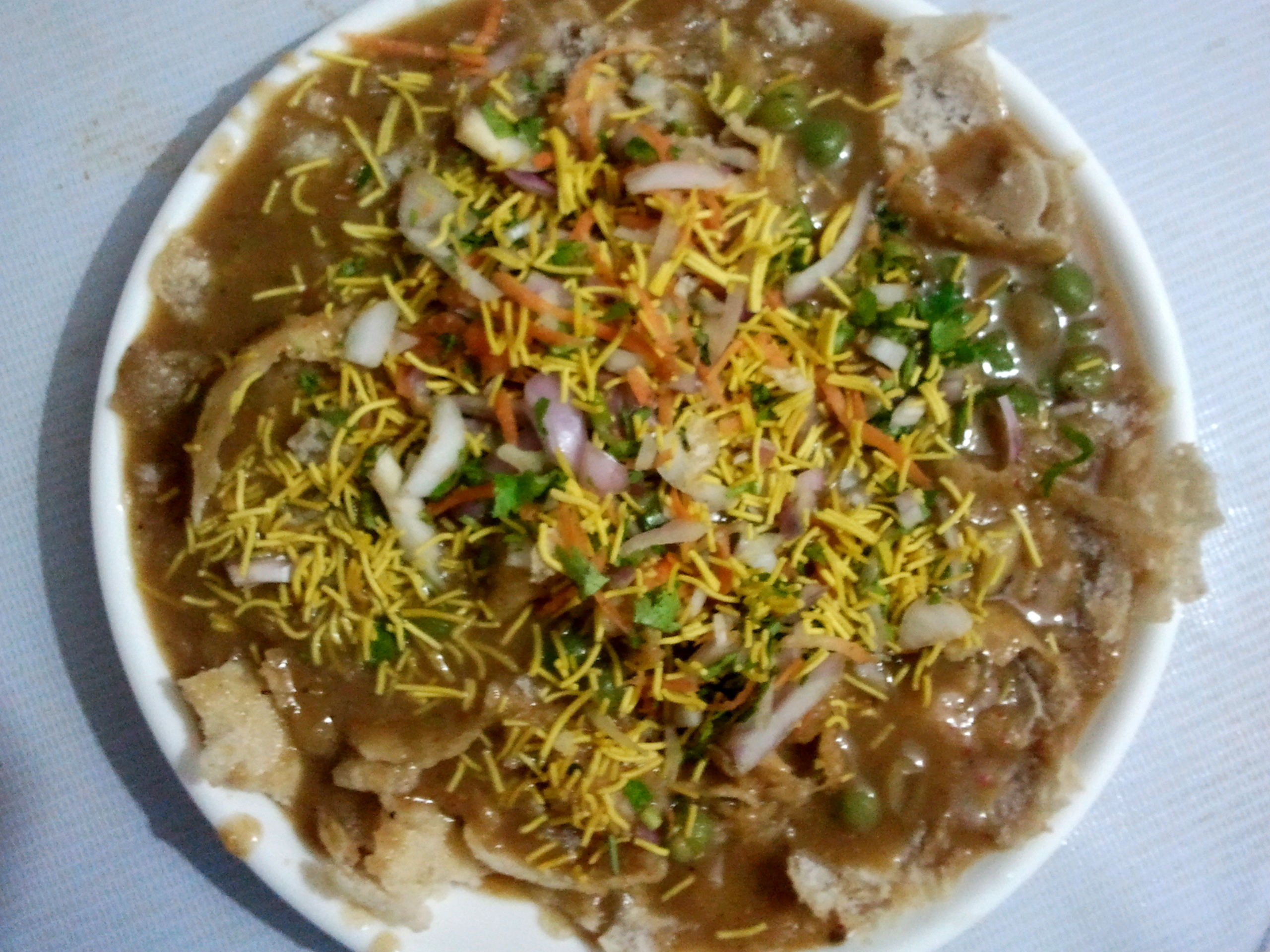 This is a plate of Masala poori made by street vendors in the chaat stalls in road side.